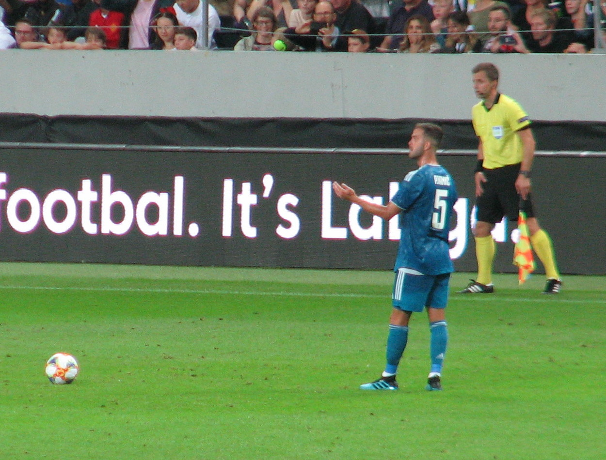 20190810 International Champions Cup at Friends Arena. Goals by Thomas Lemar (24') and Joáo Felix (33') for Atlético Madrid and by Sami Khedira (29') for Juventus.